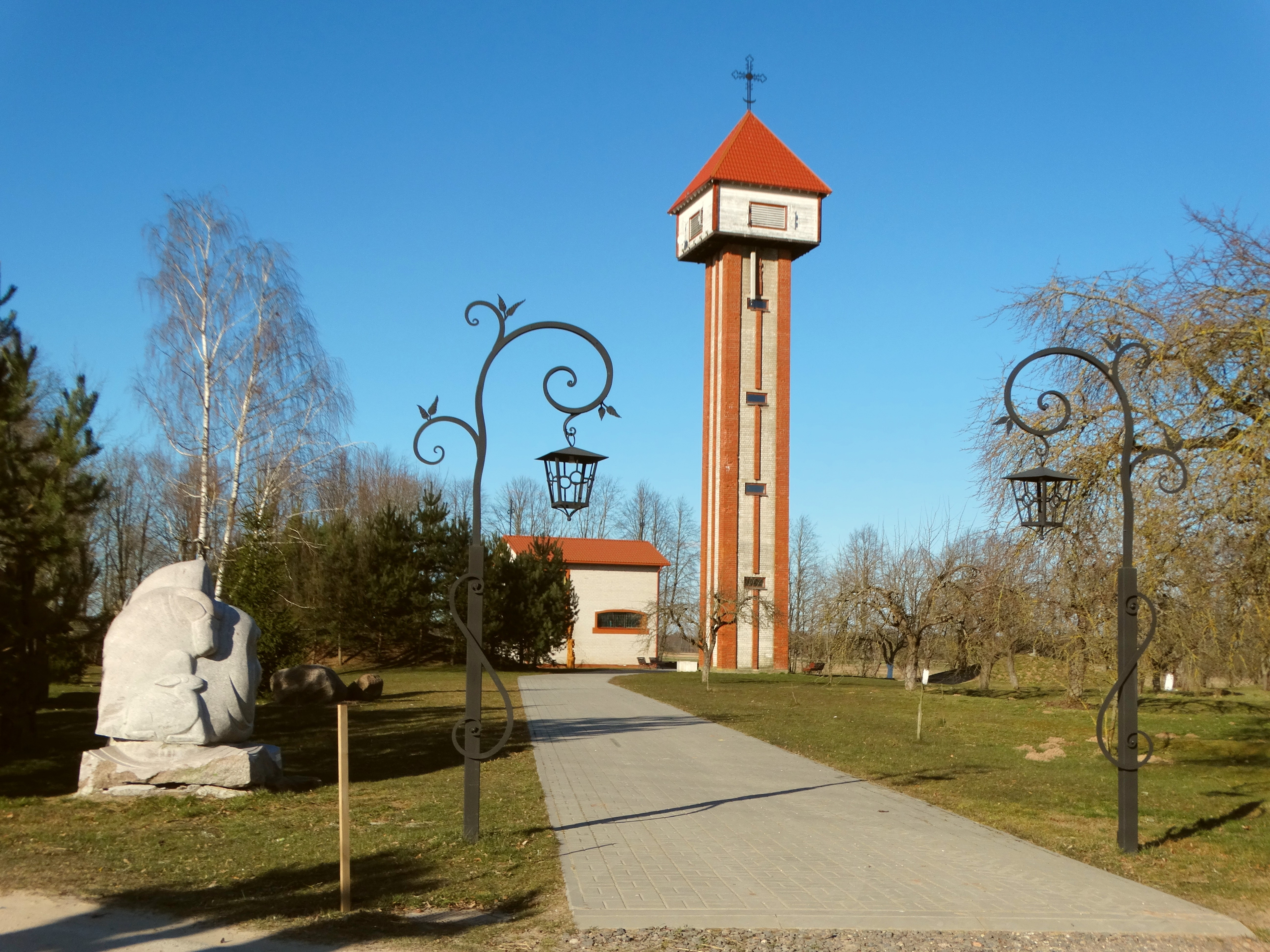 Skemai, chapel, Rokiškis district, Lithuania